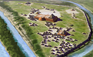 "Angel Mounds", digital illustration, Herb Roe © 2015. An illustration of the Mississippian culture Angel Mounds Site on the Ohio River near Evansville, Indiana.